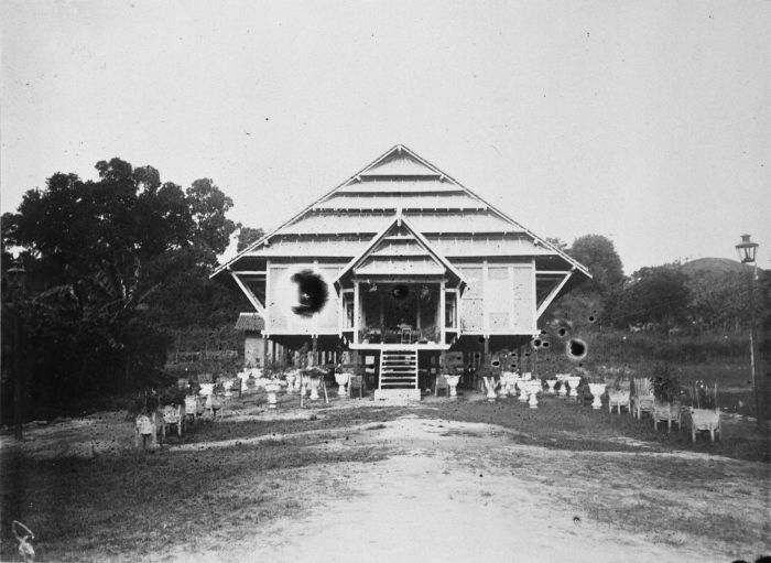 House of local rulers at Singkang